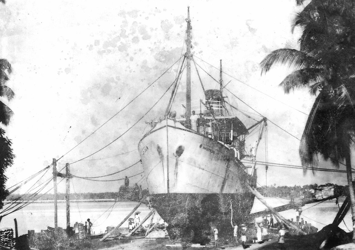 ss Nautilus, dry docked using a new method of levers, on land in Palluruthy, India. Photo was also published in The Hindu newspaper in 1939.